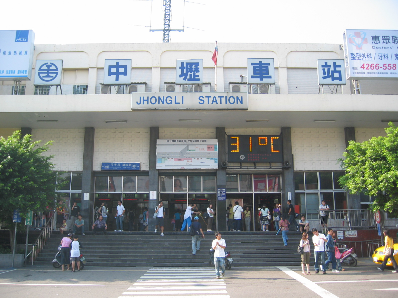 Front Station of TRA Jhongli Station.